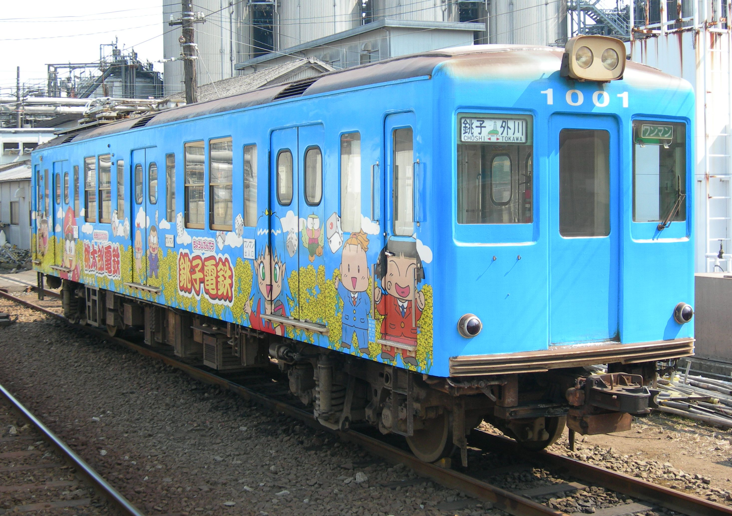 Choshi Electric Railway 1000 series EMU car DeHa 1001 in "Momotaro Dentetsu" livery at Nakanocho Depot